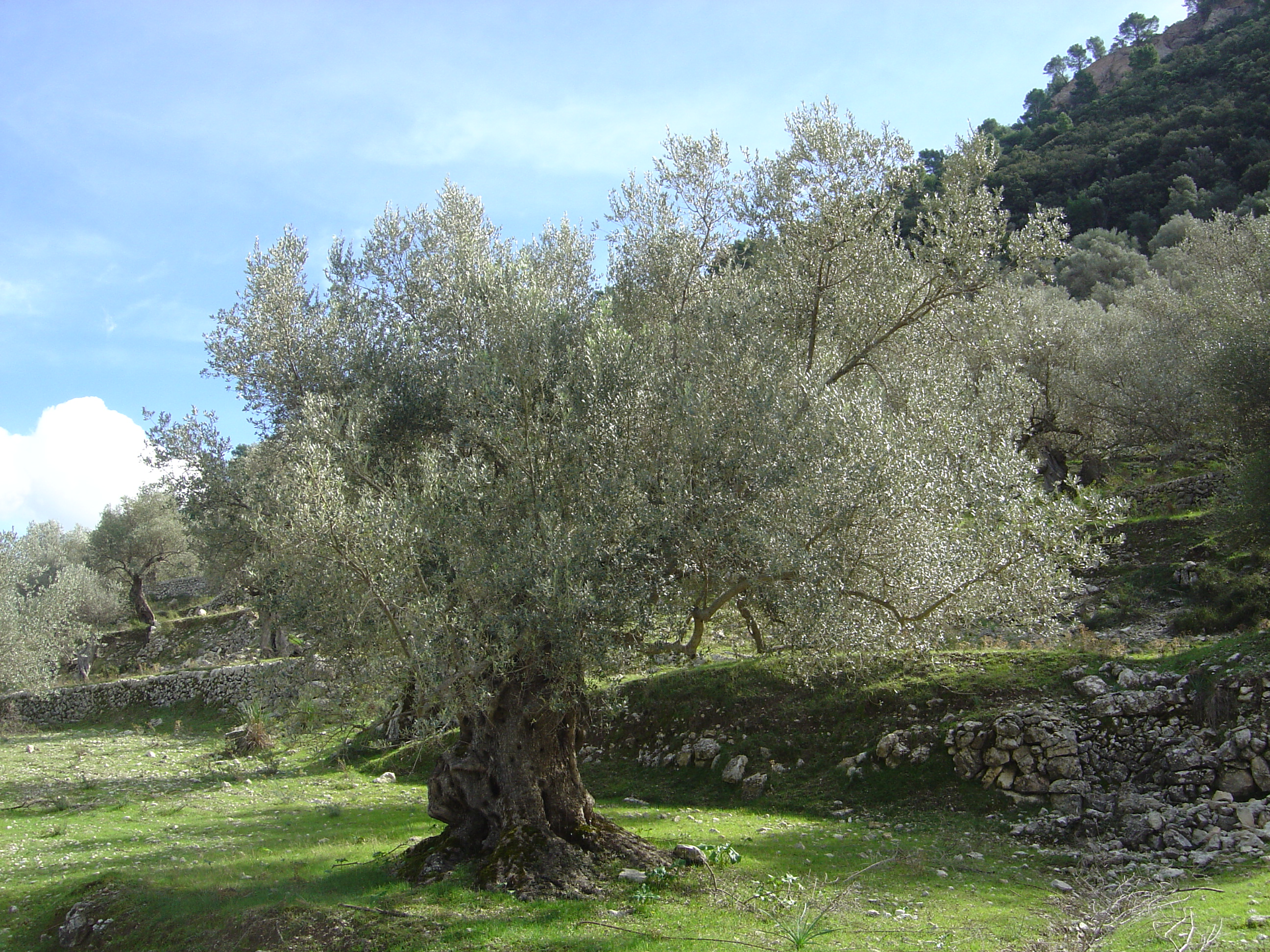 Olive Tree (Olea europaea) in Mallorca, near the village of Orient.